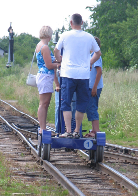 Touristic version of a handcar of Bānītis, Latvia